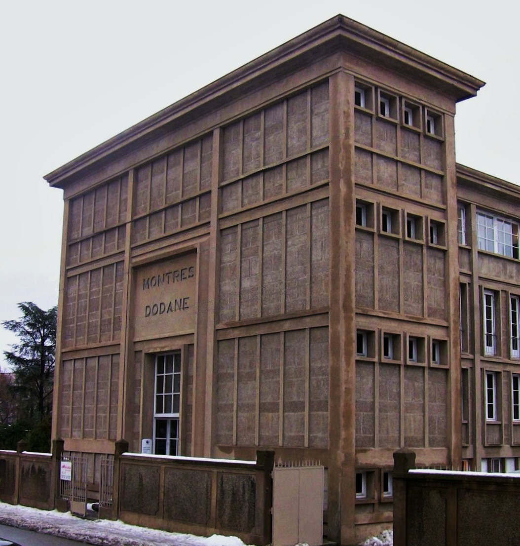 Dodane factory, in Besançon (Doubs, France)